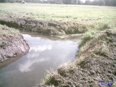 Mouth of the Flöthbach creek.